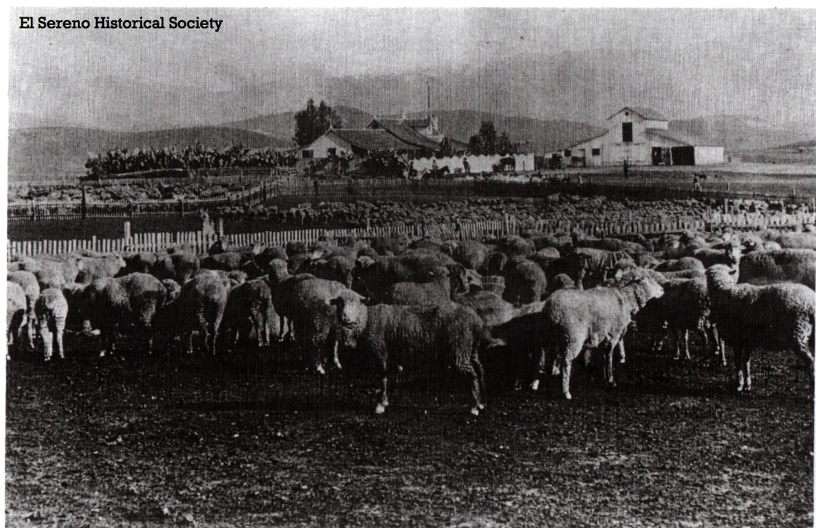 Flock of sheep with houses in background, Los Angeles County, about 1880, Photo taken on the Rancho Rosa de Castillo, approximately where El Sereno, is today.